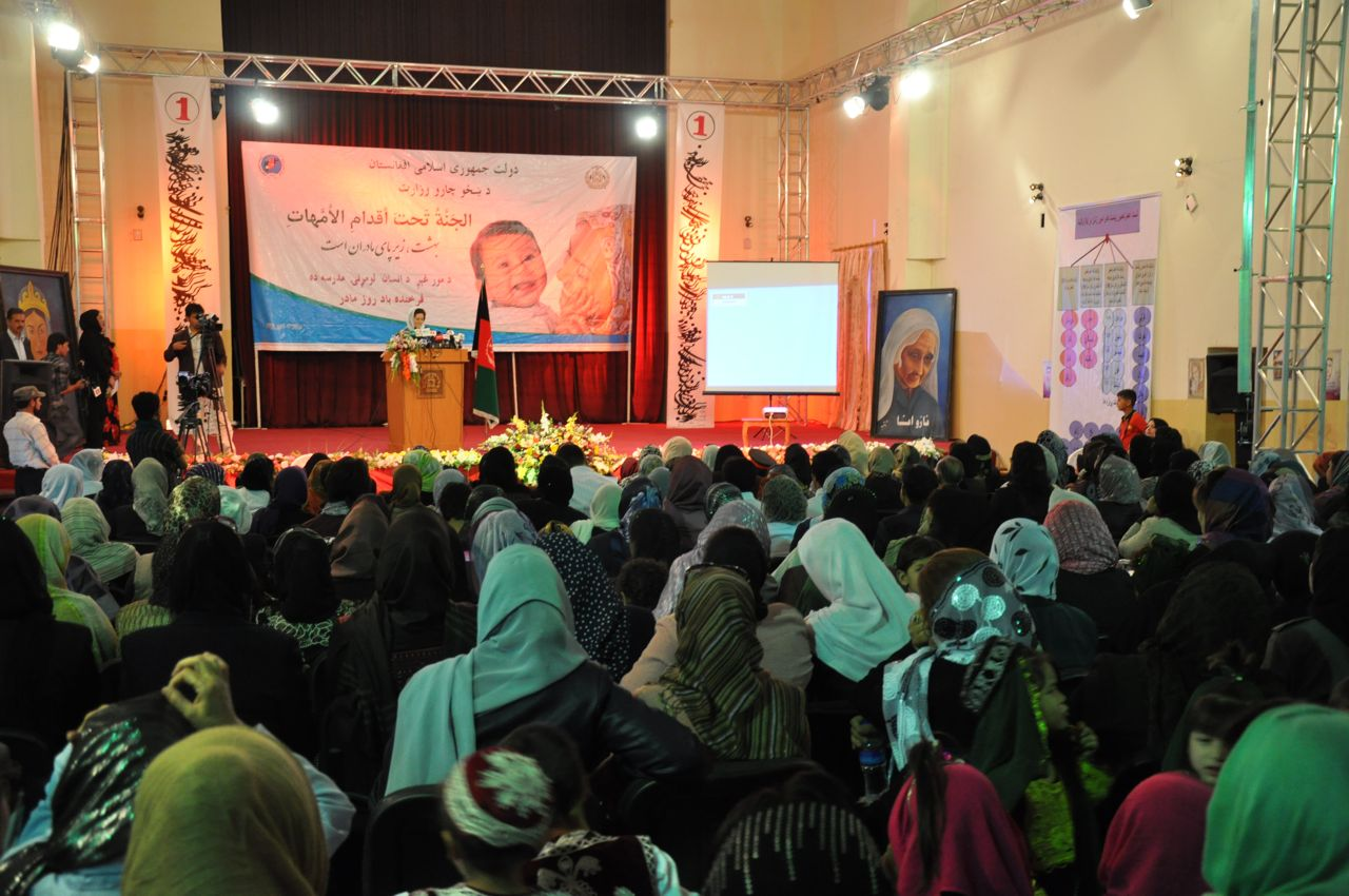 Minister Ghazanfar addressed the audience and spoke about the accomplishments and challenges faced by mothers in Afghanistan.